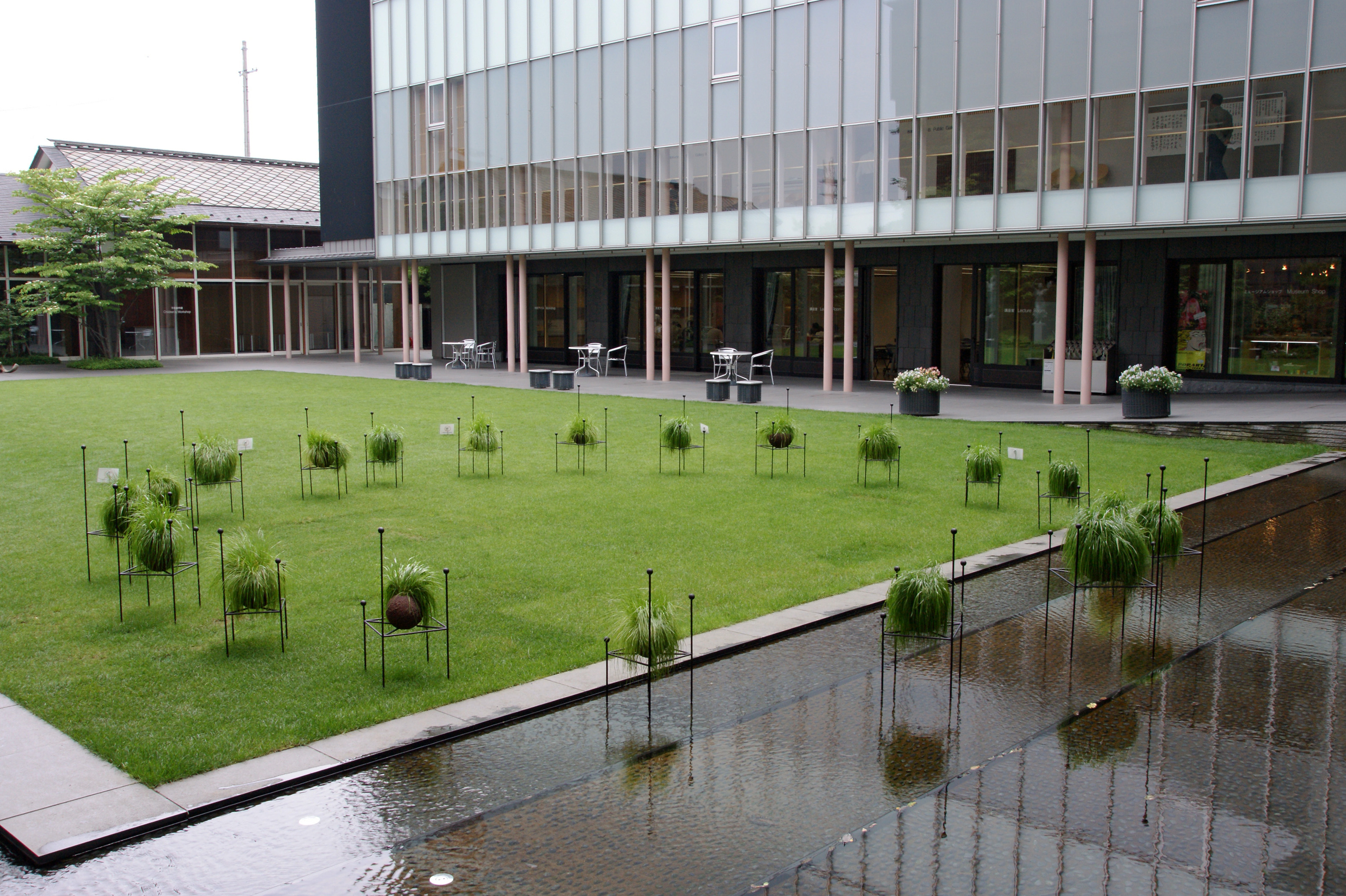 Matsumoto City Museum of Art in Matsumoto, Nagano prefecture, Japan